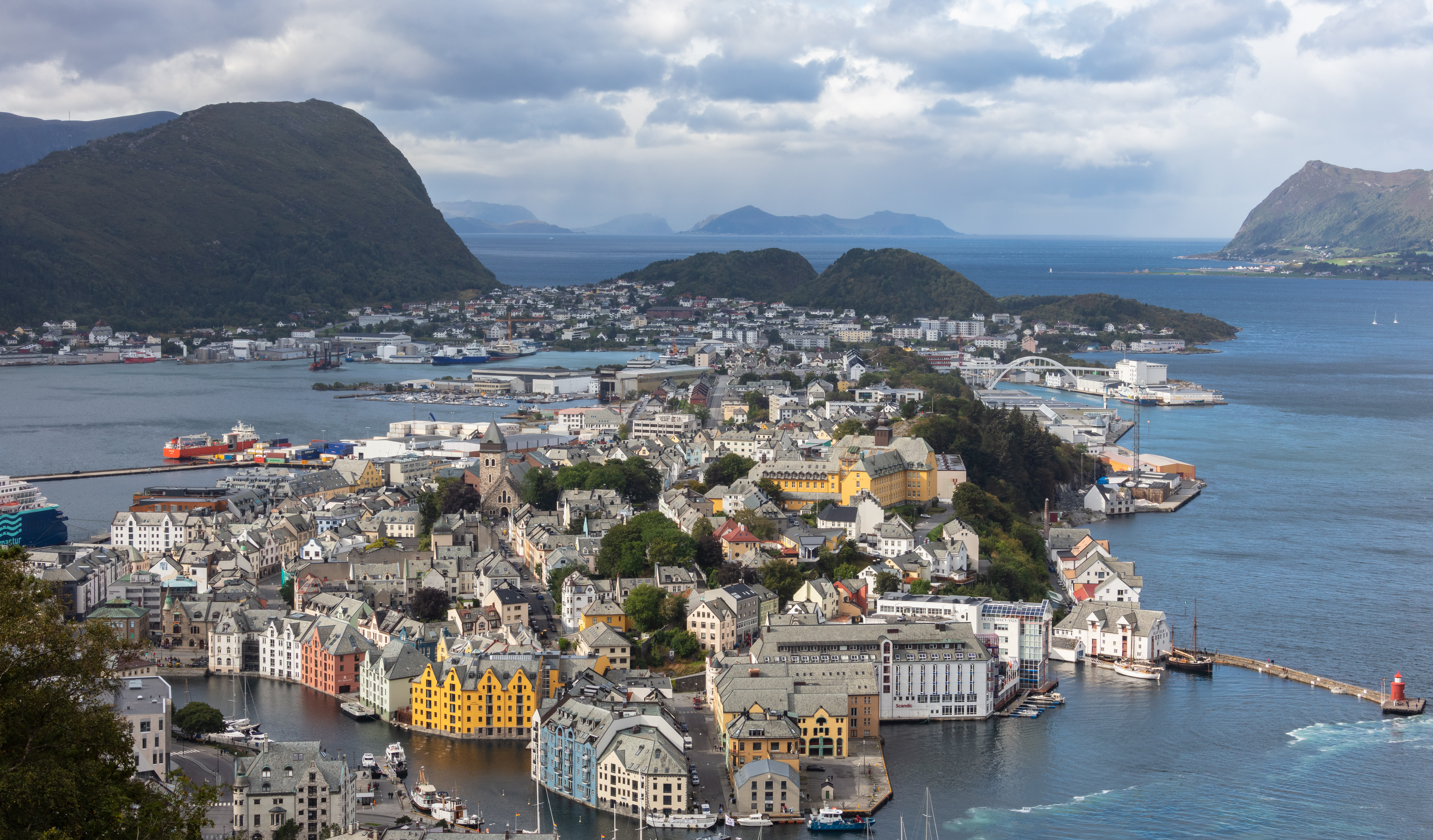 View of Ålesund from Aksla, Norway